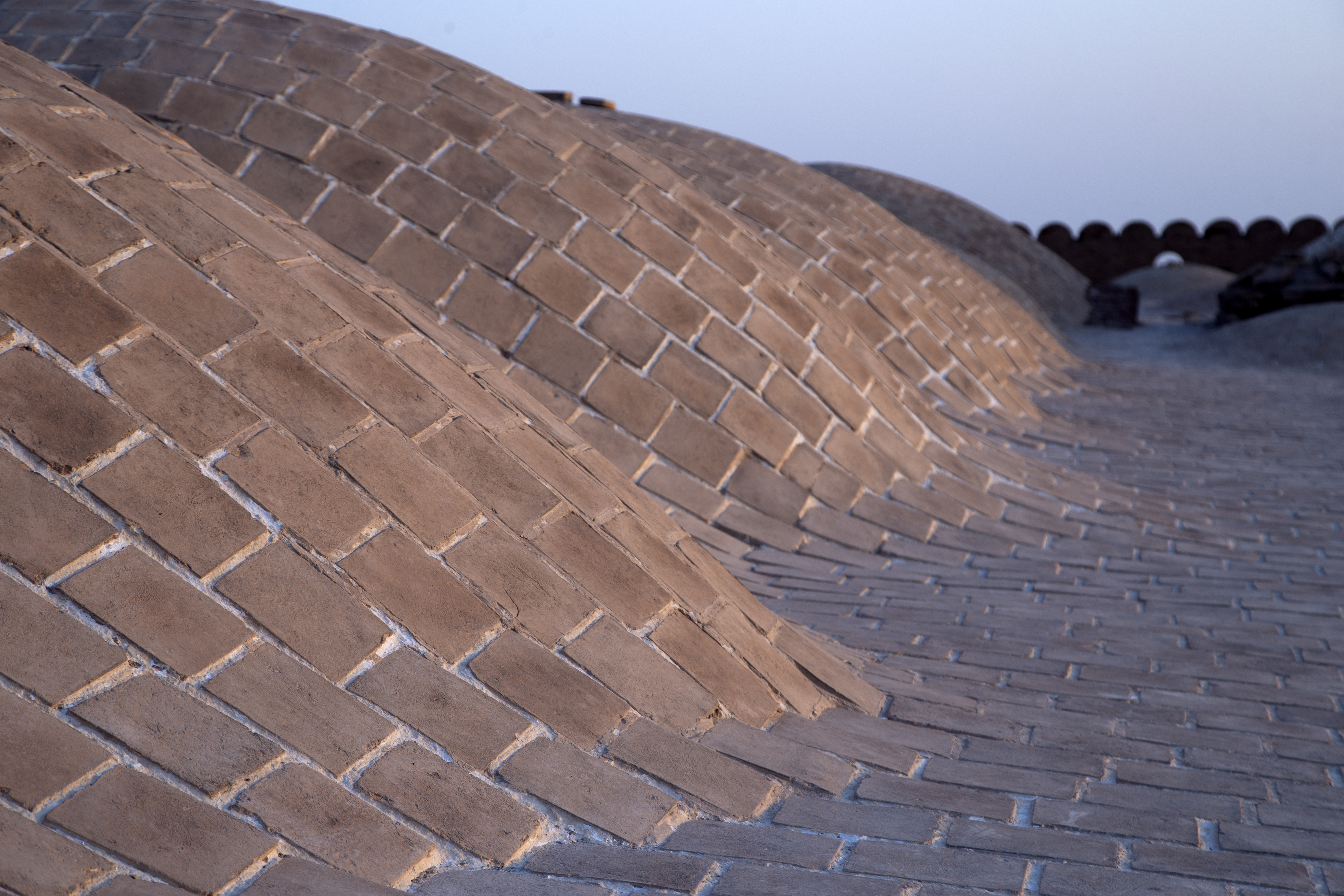 Deir-e Gachin Caravansarai is one of the greatest caravansarais of Iran which is located in the center of Kavir National Park. Its unique qualities is the reason it is called “Mother of Iranian Caravansarais”. It is located in the Central District of Qom County, 80 kilometers north-east of Qom (60 kilometers into Garmsar Freeway) and 35 kilometers south-west of Varamin. (Photo by: Mostafa Meraji, wiki loves monuments 2018)